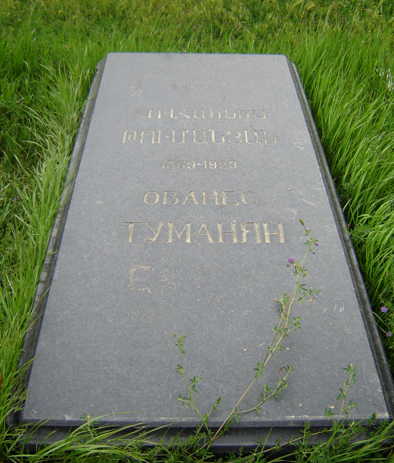 Tombstone of Armenian poet Hovhannes Tumanyan in Tbilisi, Georgia